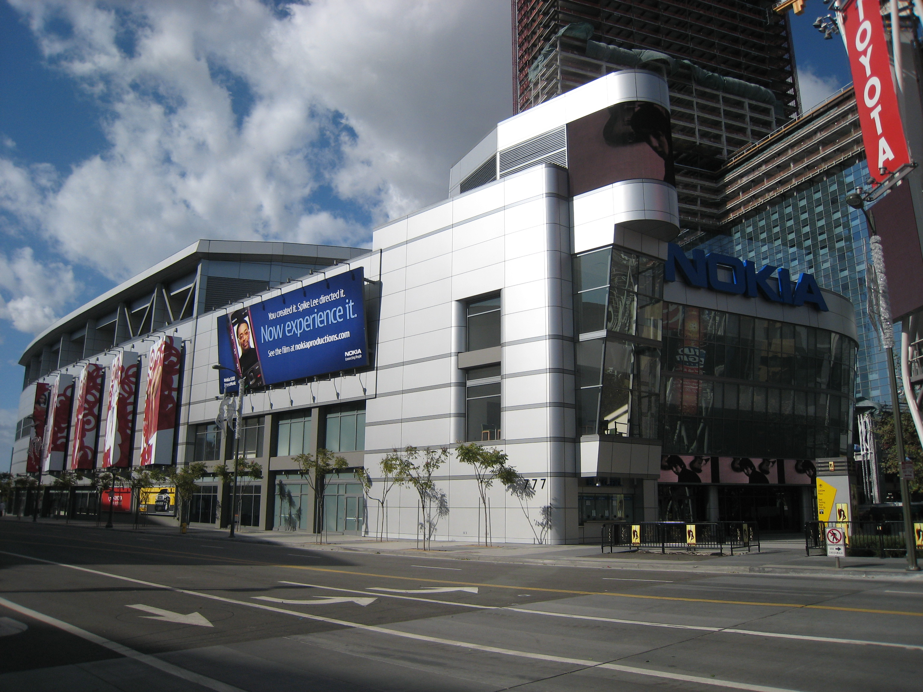 The Nokia Theater, part of the LA Live entertainment complex in Downtown Los Angeles, California. The entrance to Nokia Plaza is on the right.